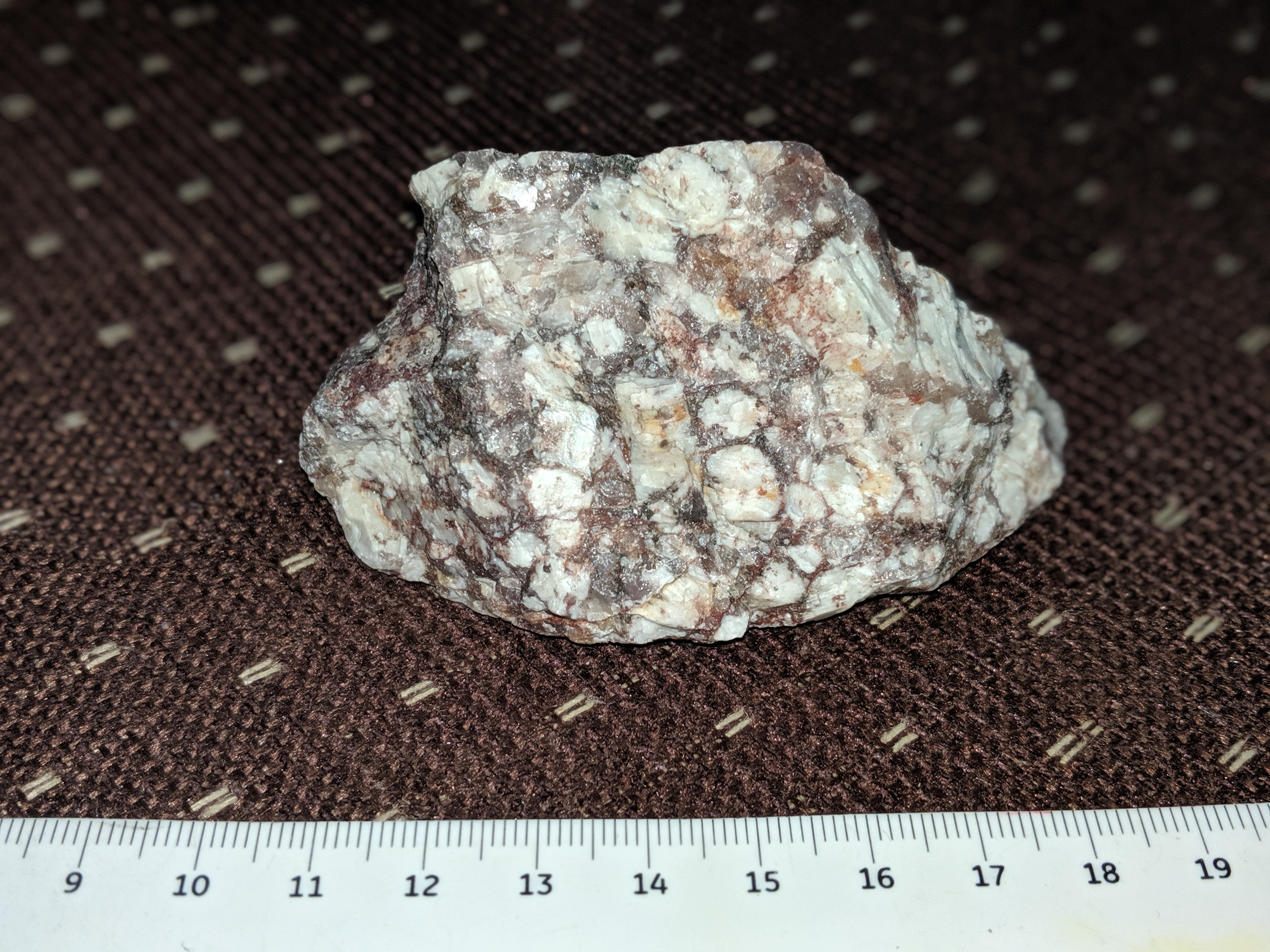 Helsinkite (stone with main components Albite and Epidote), origin: Viikinmäki (Helsinki, Finland)